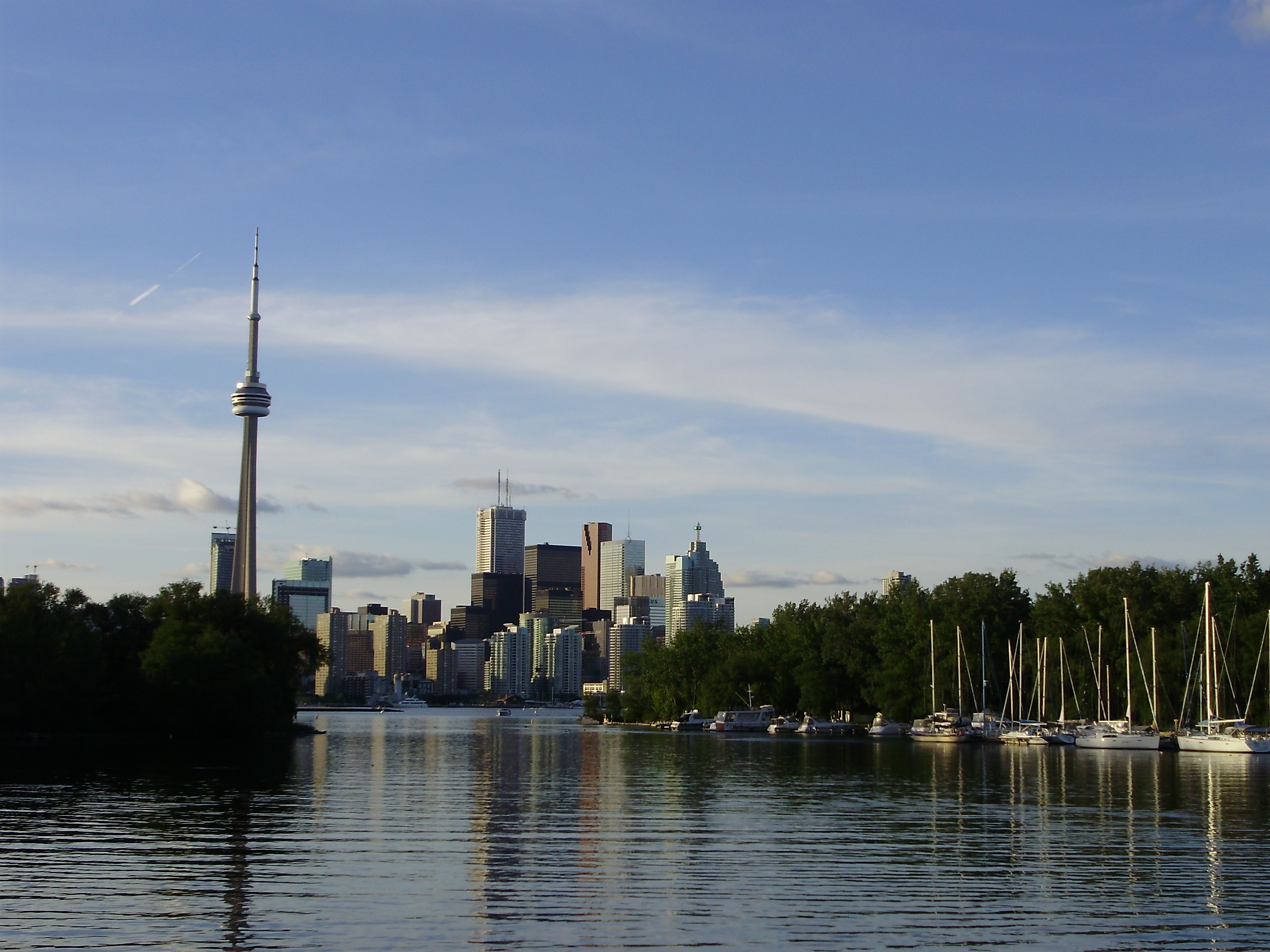 Toronto from the water